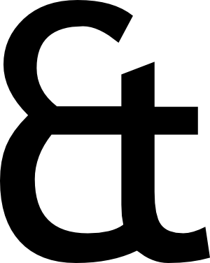 The ampersand (&) character in Trebuchet MS font, appearing as an "Et" ligature.